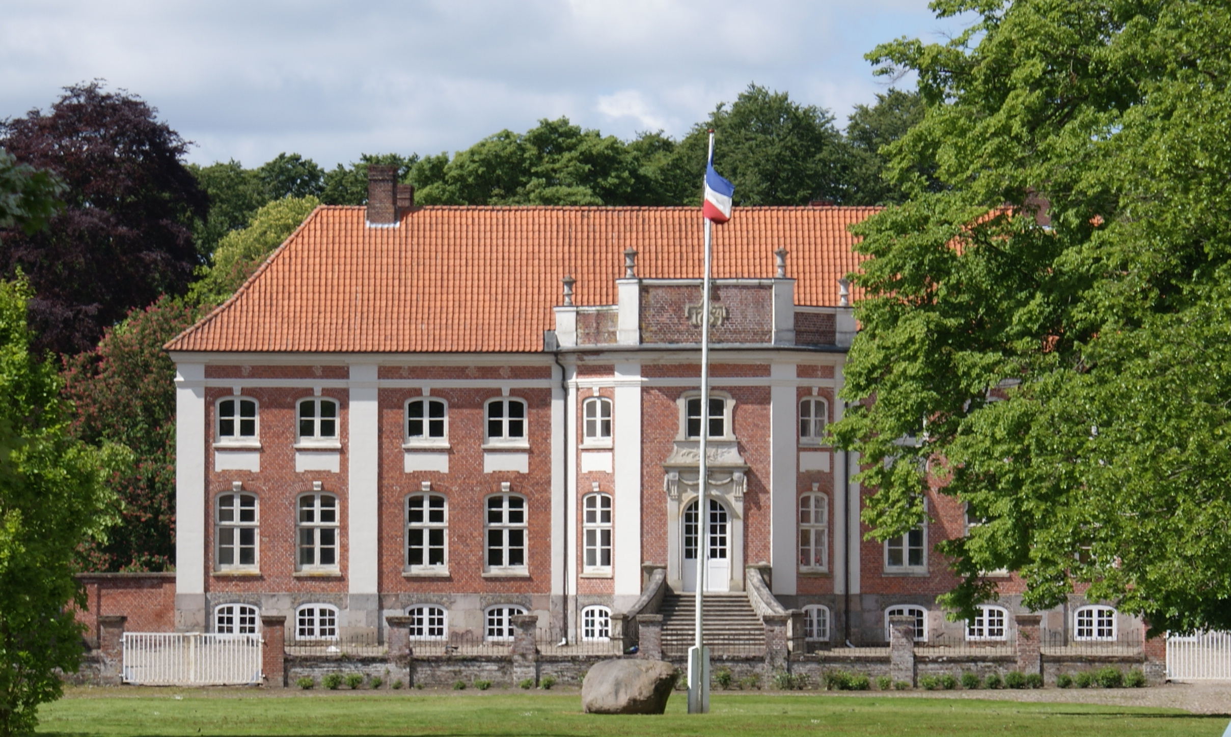 Rundhof Manor in the north of Schleswig-Holstein